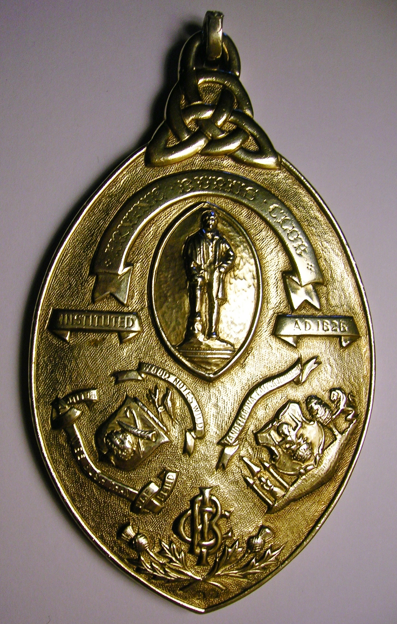 A Burns Club medallion with the poets coat of arms, motto, etc. Also the arms of the Royal Burgh of Irvine.